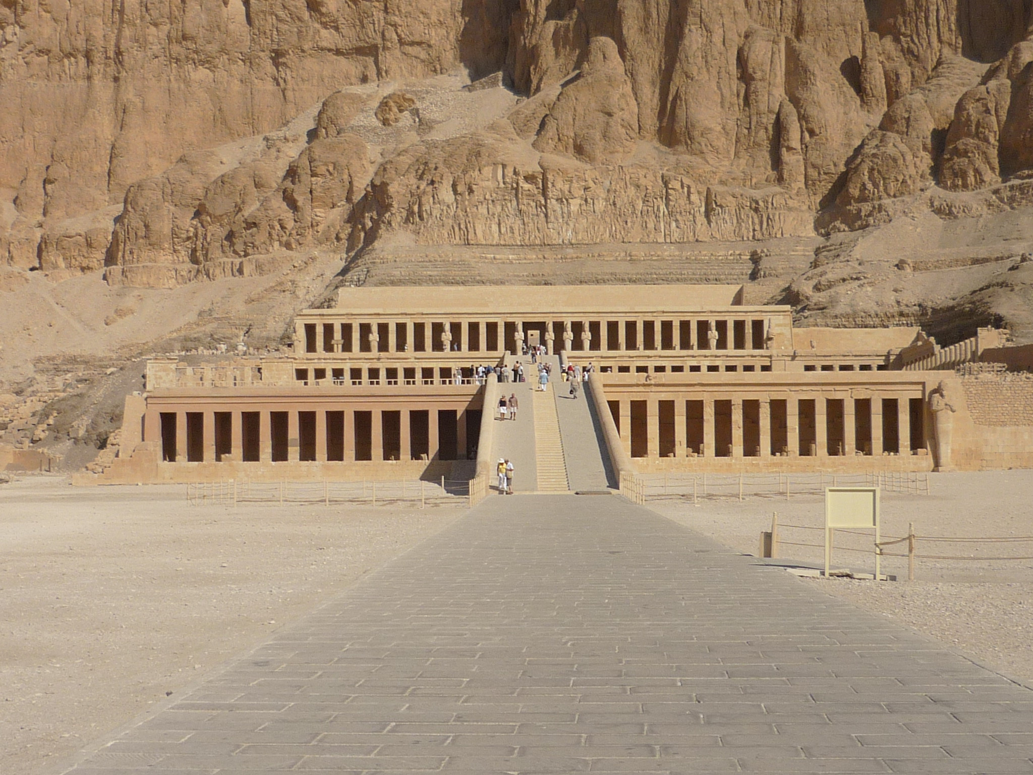 Hatshepsut temple, Deir el-Bahari, Theban Necropolis, Egypt